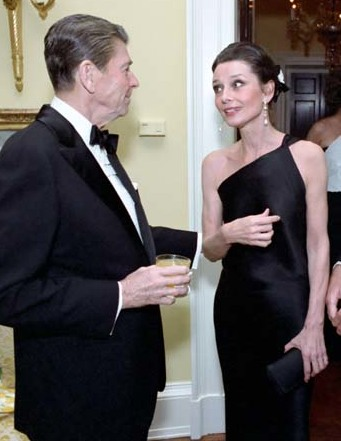 President Reagan talking with Audrey Hepburn and Robert Wolders at a private dinner for the Prince of Wales at the White House.